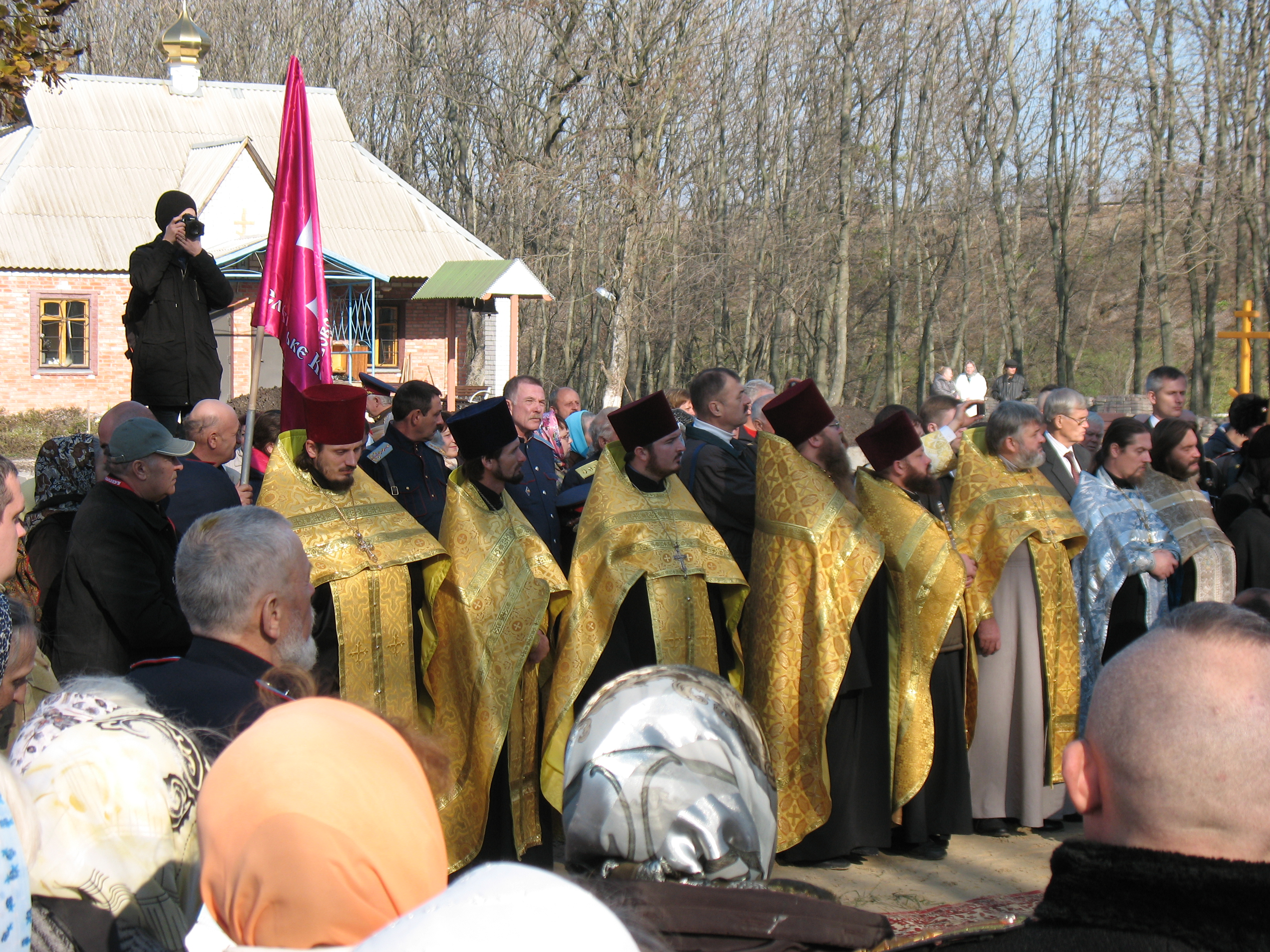 Spasov Skit.